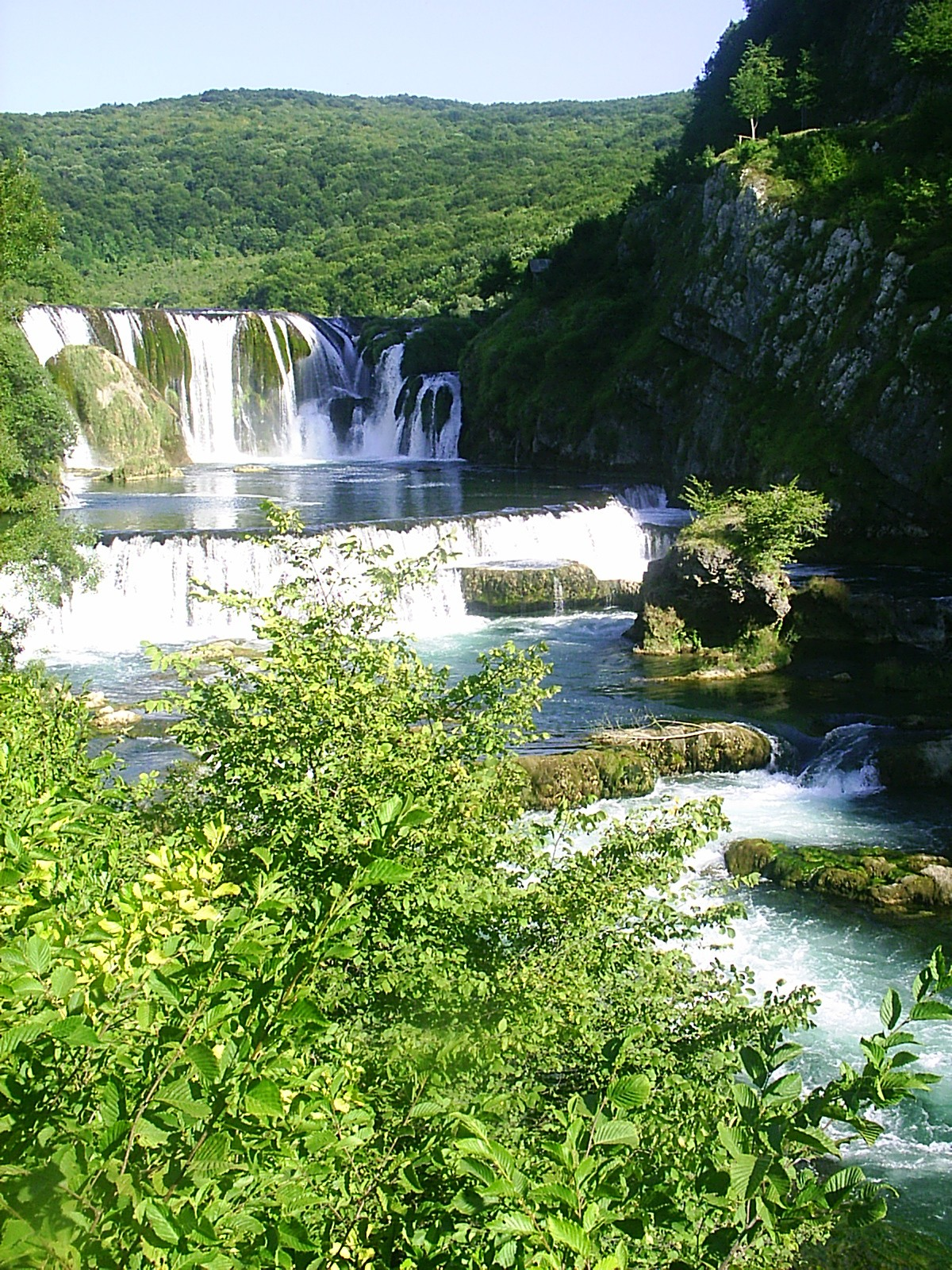 Štrbački buk waterfall at Una River, BiH